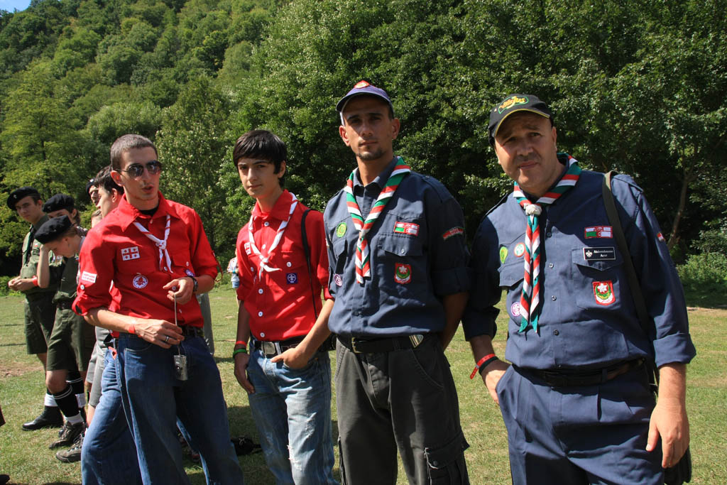 2nd Ukrainian Scout Jamboree 2009. Georgian and Algerian scouts.